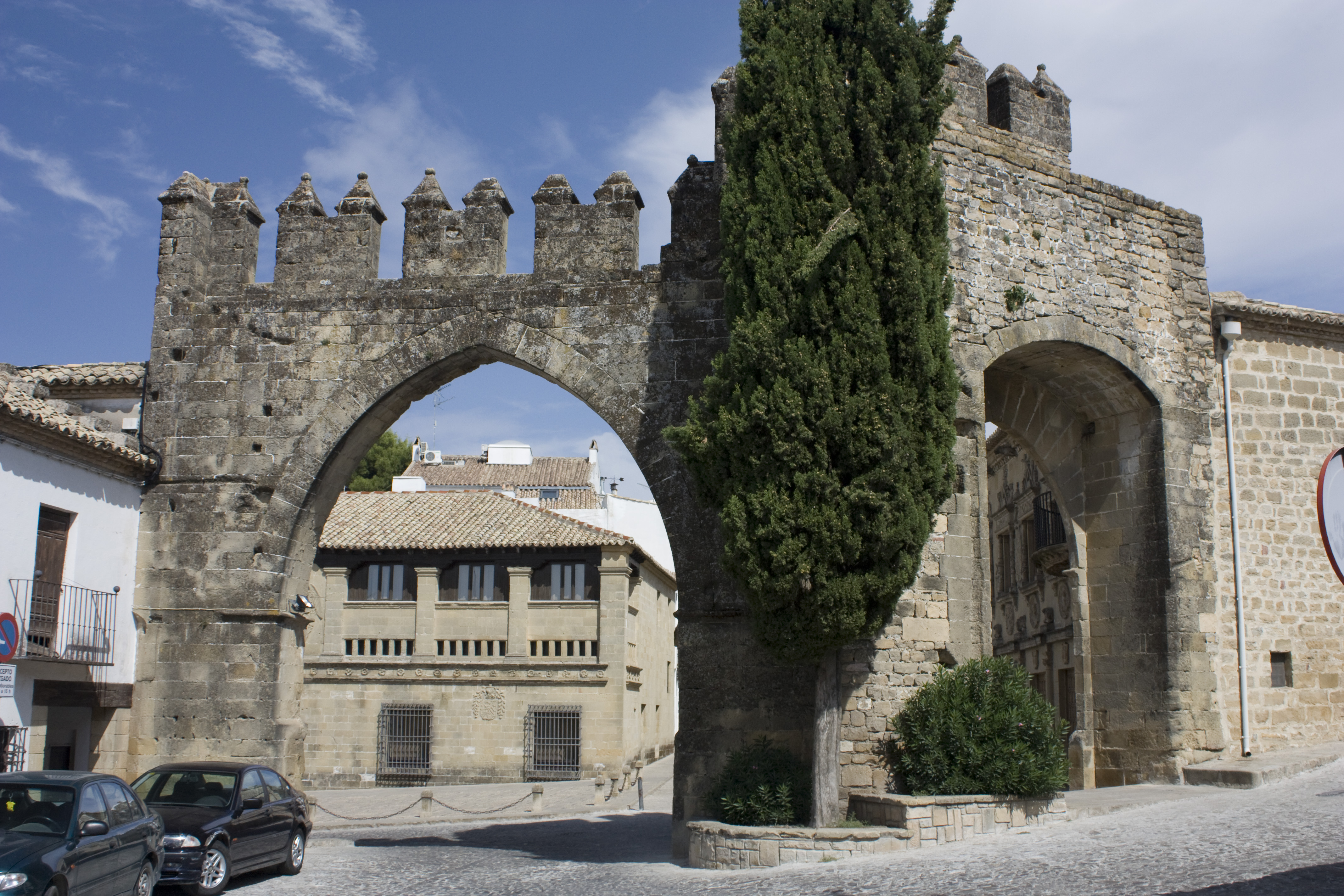 The Gate of Jaén date of 1476. The Arco de Villalar was drilled in 1521 to commemorate the victory of the imperial troops at the battle against the Comuneros de Castille.